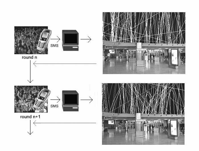 Maurizio Bolognini's CIMs interactive installations